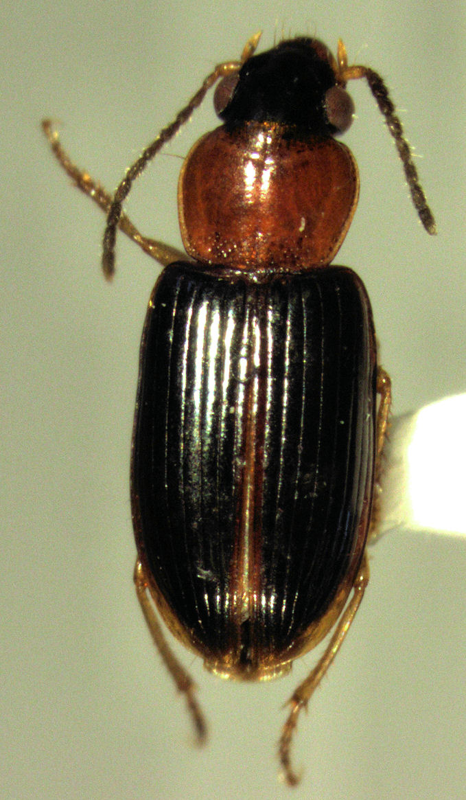 adult Euthenarus bicolor, length about 3.8 mm